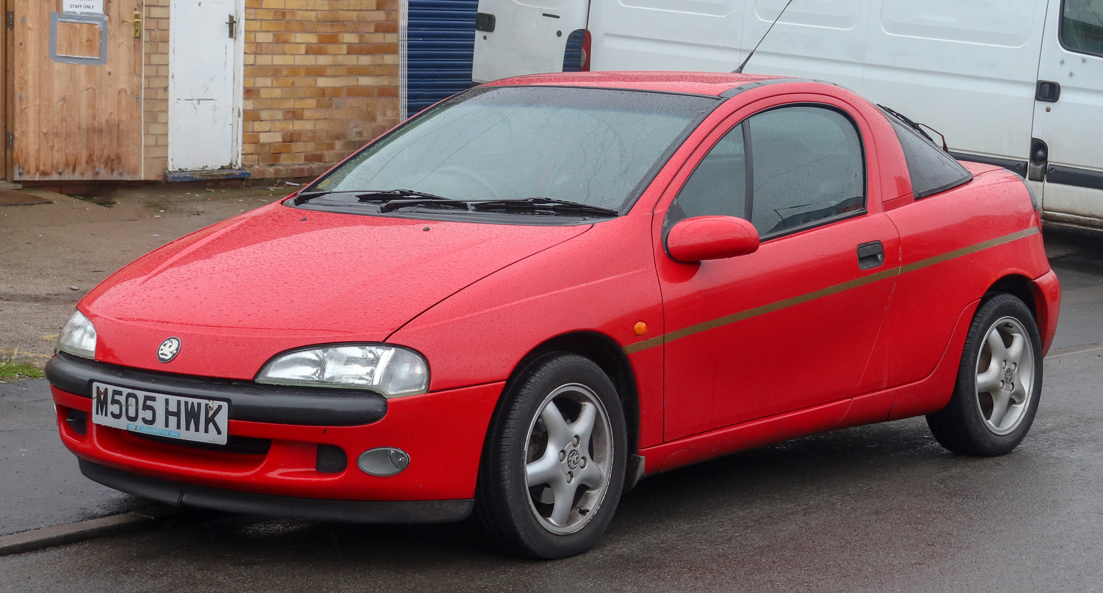 1995 Vauxhall Tigra 1.6 Front (Early M Reg) Taken in Leamington Spa